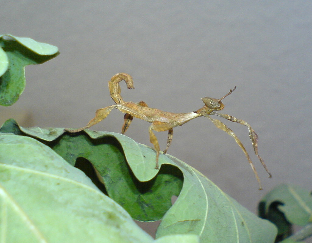 Extatosoma tiaratum, Insect, male